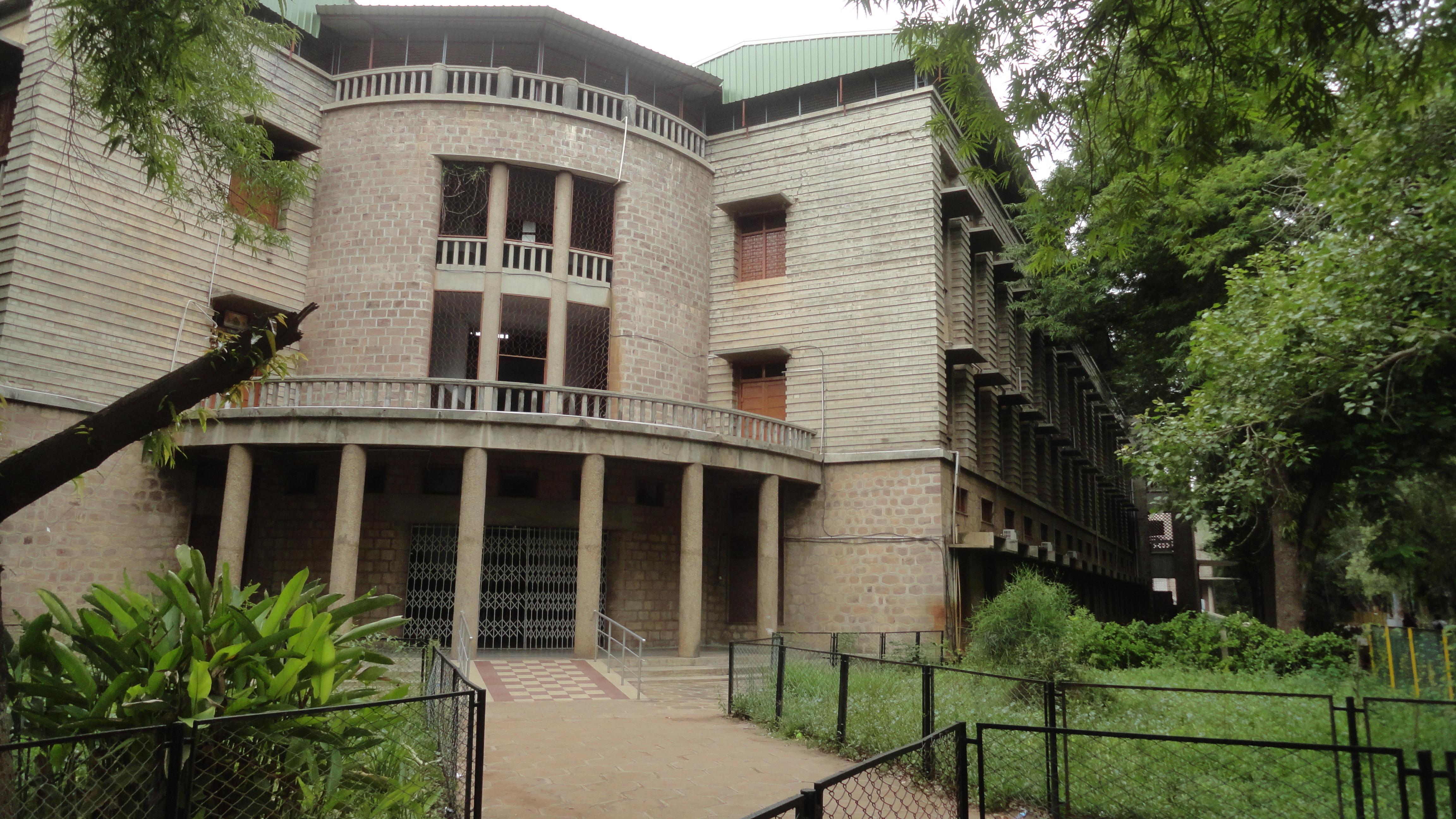 Andhra layola college